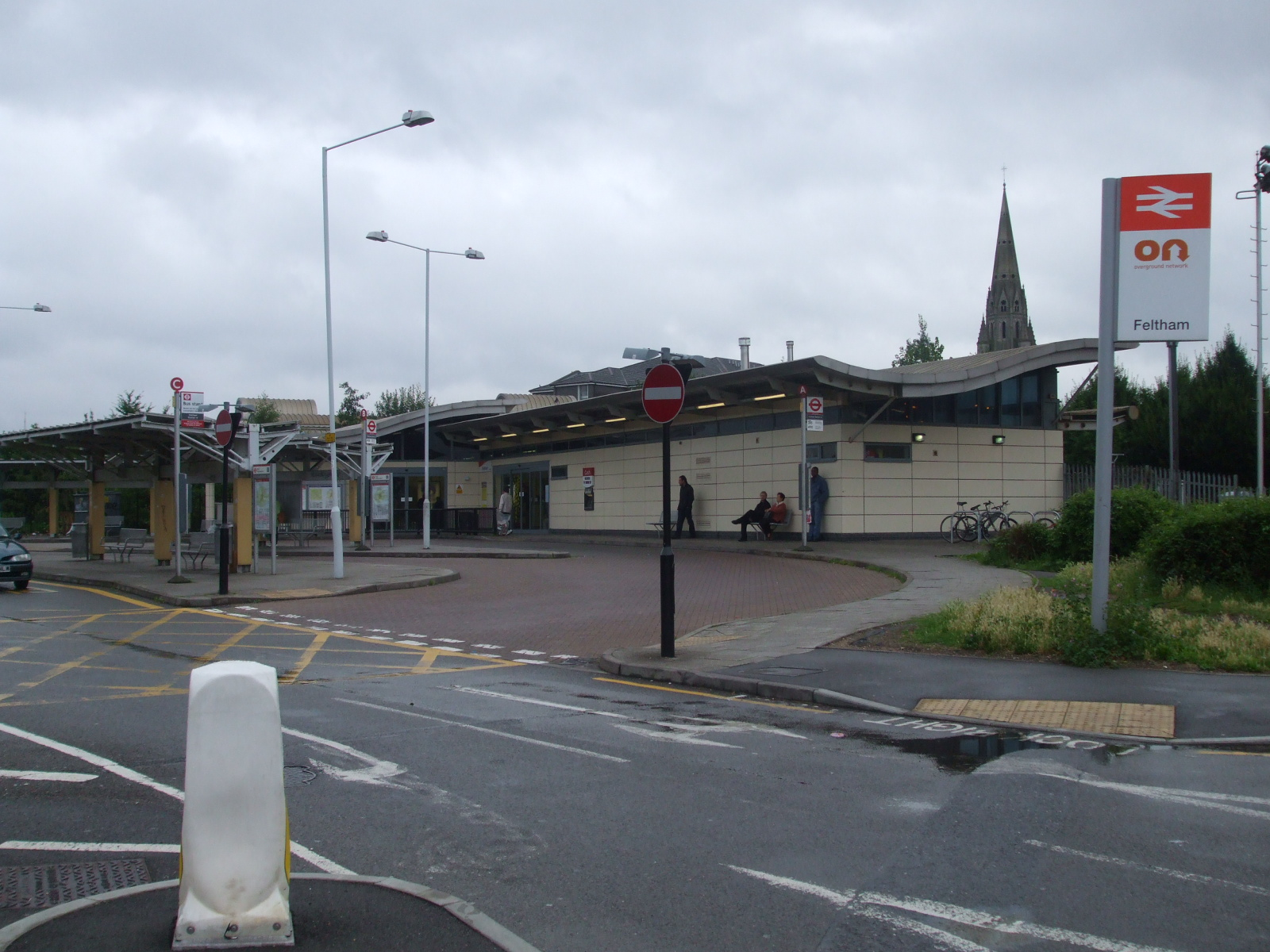 Feltham station new building and bus stand, on the London-bound side